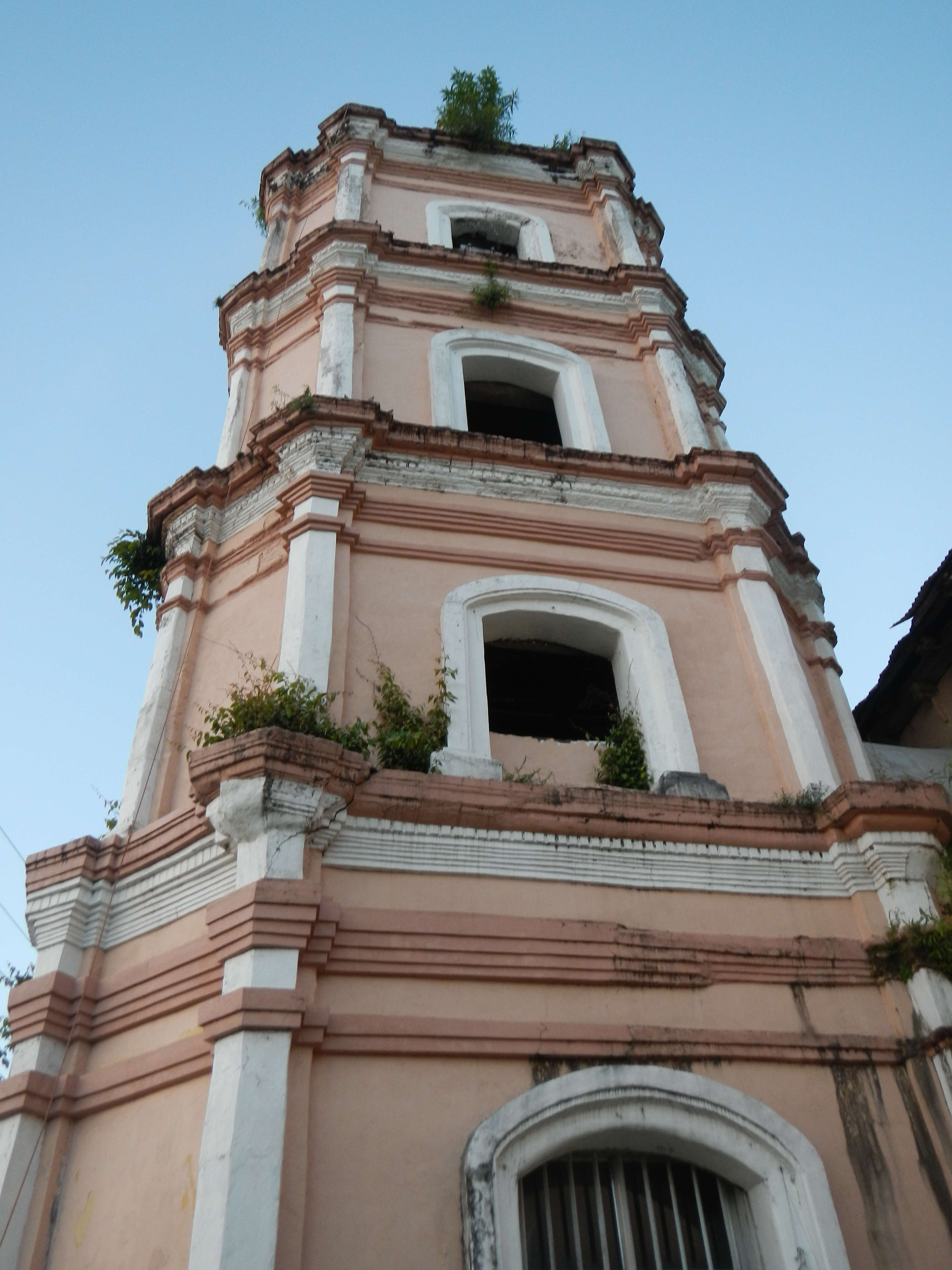 1810 St. Joseph The Patriarch Church, Roman Catholic Diocese of Alaminos[1][2] Vicariate I Episcopal Vicar: Msgr. Luello N. Palapac Aguilar (1810), 2415 Pangasinan Population: 33,213 Titular: St. Joseph the Patriarch, March 19 Co Pastors: Fr. Windell de Vera Fr. Johnny Tagalicud Fr. Bayani Liguid Aguilar, Pangasinan[3]